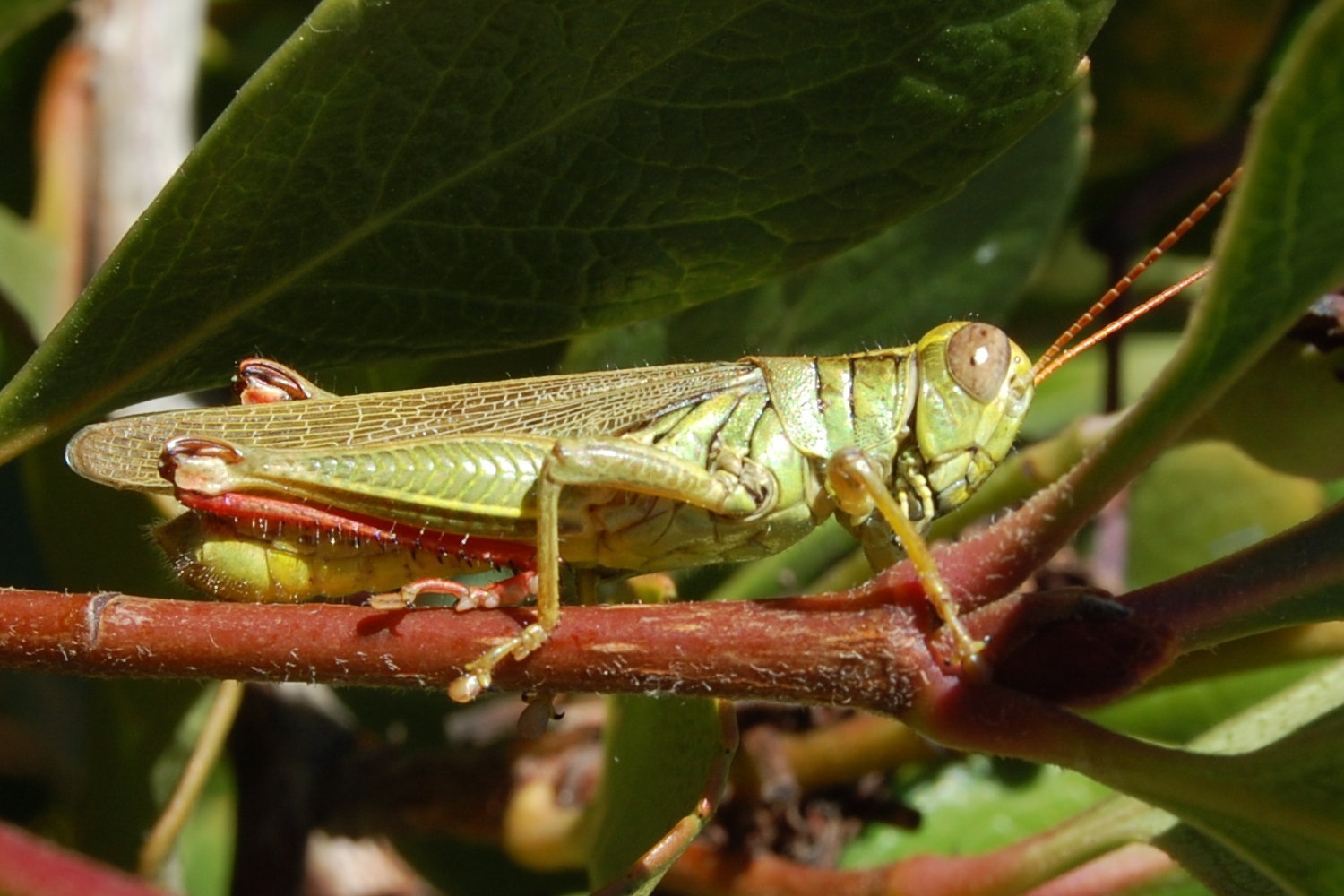 Yarrow's Spur-throat Grasshopper. Male